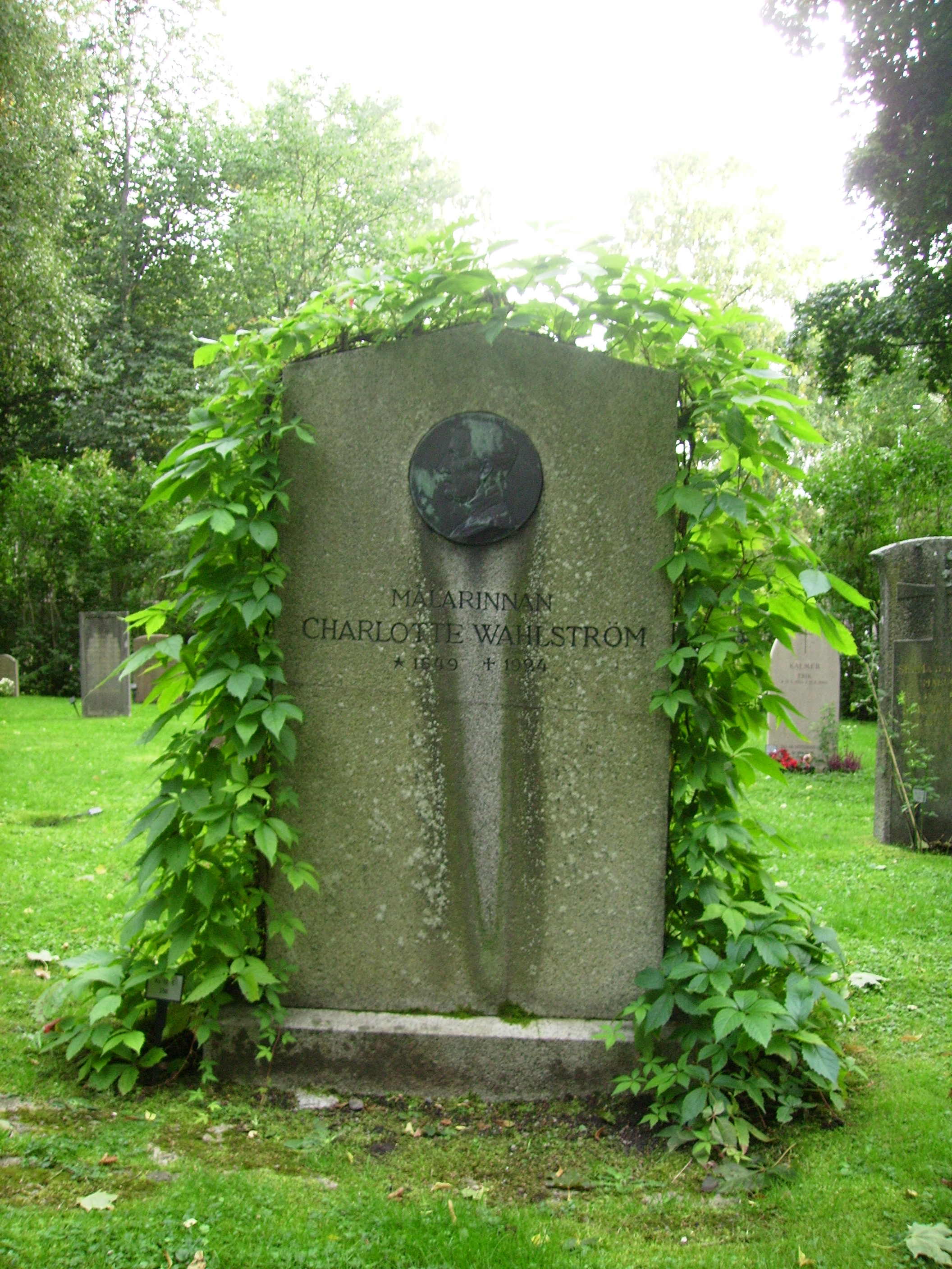 Picture of Charlotte Wahlström's grave at Norra begravningsplatsen in Stockholm